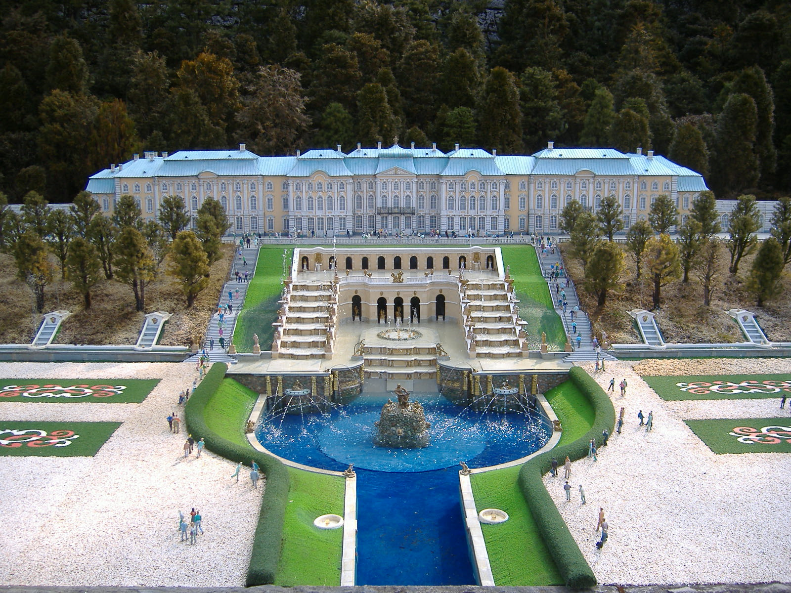 The 1/25 scale miniature Peterhof palace in Tobu World Square(Tochigi pref, Japan).